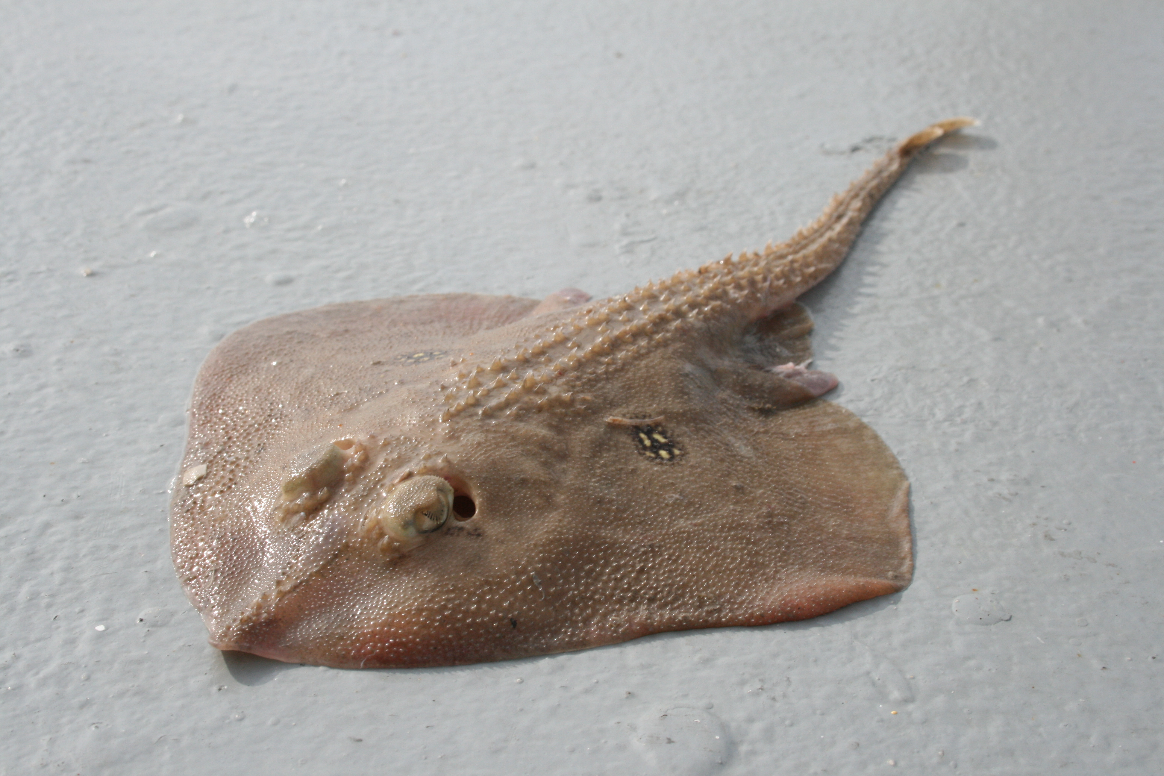 Leucoraja naevus